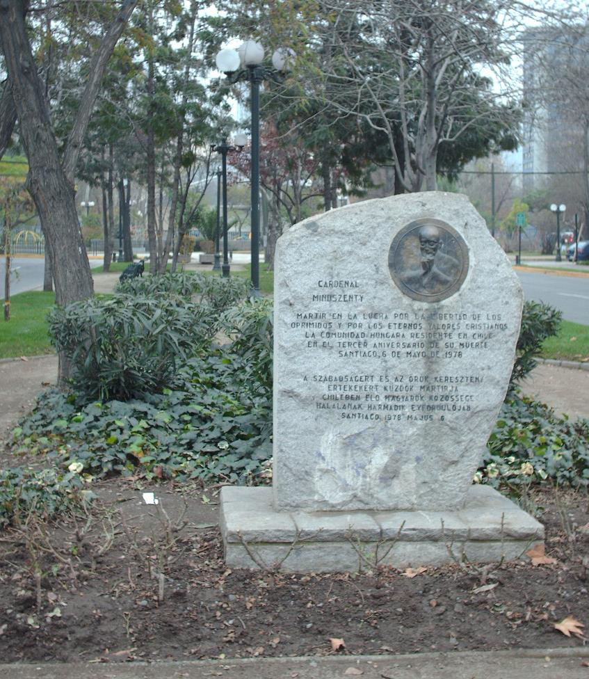 Memorial to József Mindszenty in Parque Bustamante (Bustamante Park), Providencia, Santiago, Chile. It reads "Martyr in the struggle for freedom of the oppressed and the eternal christian values. The hungarian community living in Chile in the third anniversary of his death. Santiago, May 6th, 1978"